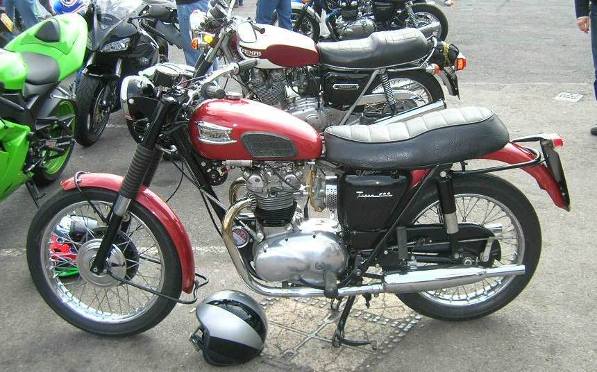 Mid-1960's example of twin cylinder motorcycle derived from original 500cc unit engine designed by Edward Turner at Triumph's Meriden factory. This example has a thicker aftermarket seat fitted.